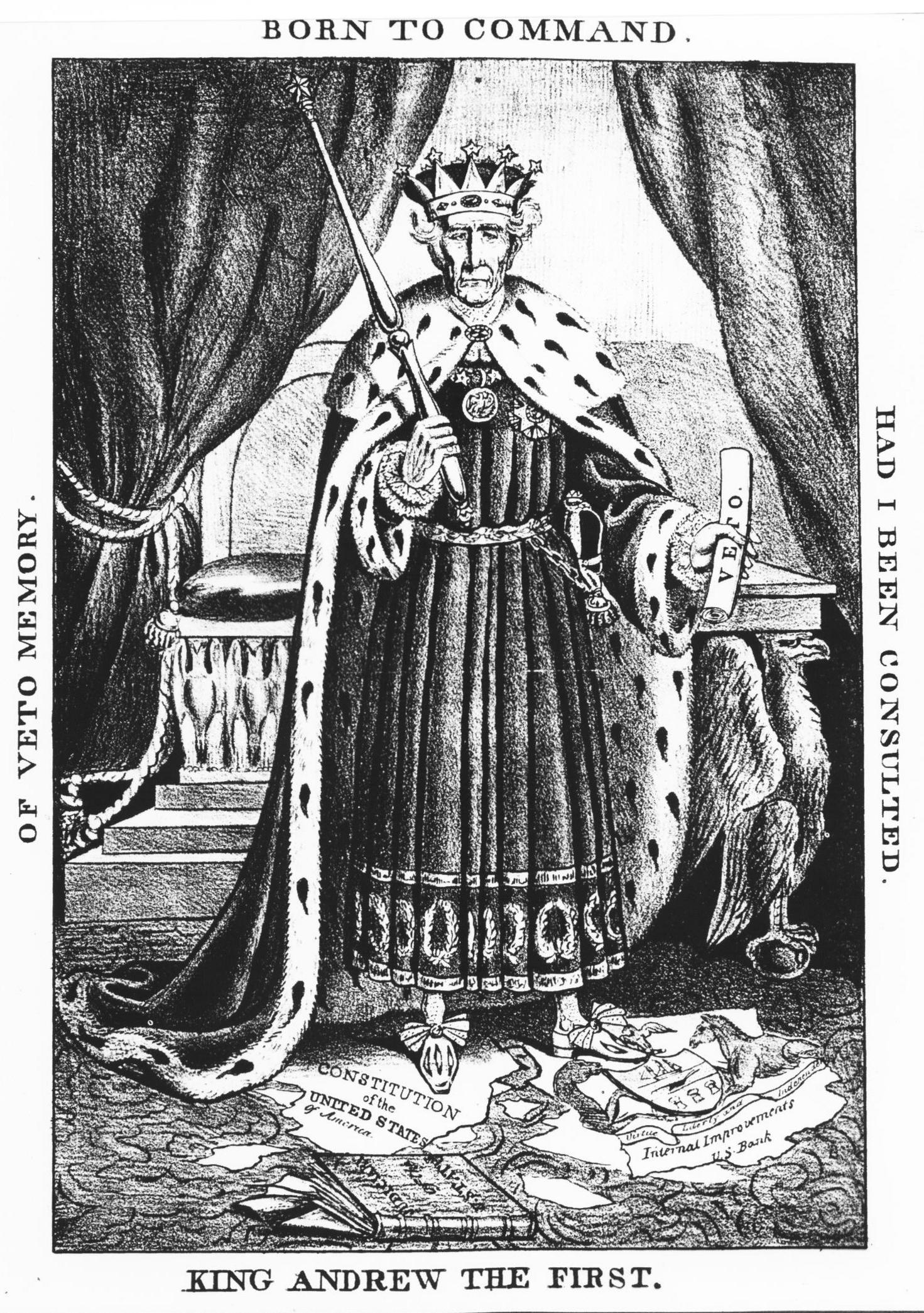 1832 King Andrew rejects republican values. Cartoon from anonymous artist circa 1832, used in campaign posters.